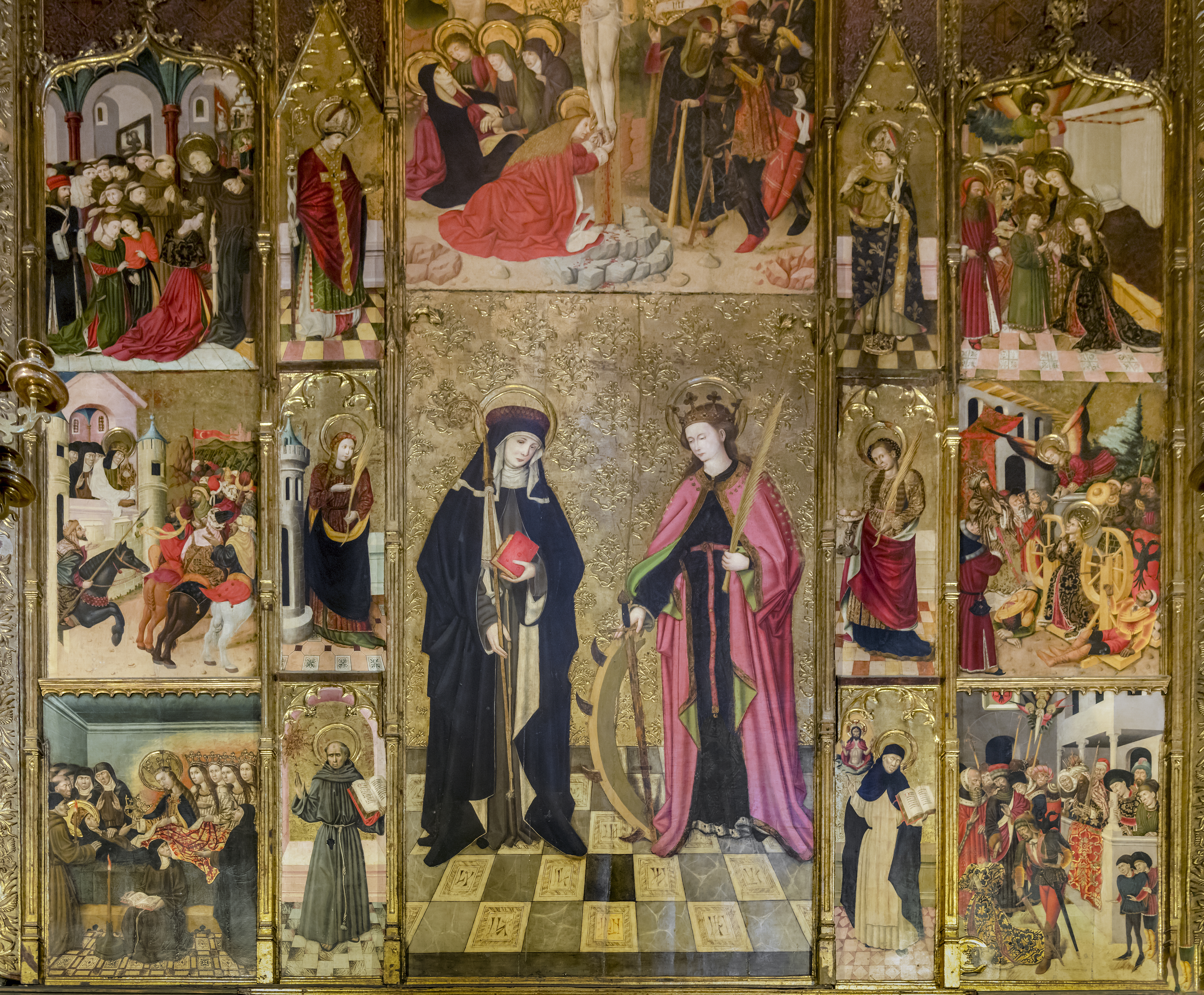 The Cathedral of the Holy Cross and Saint Eulalia in Barcelona. Chapelle de Sainte Claire d'Assise and Sainte Catherine of Alexandria - Altarpiece by Pedro García de Benavarre. Tempera on wood.